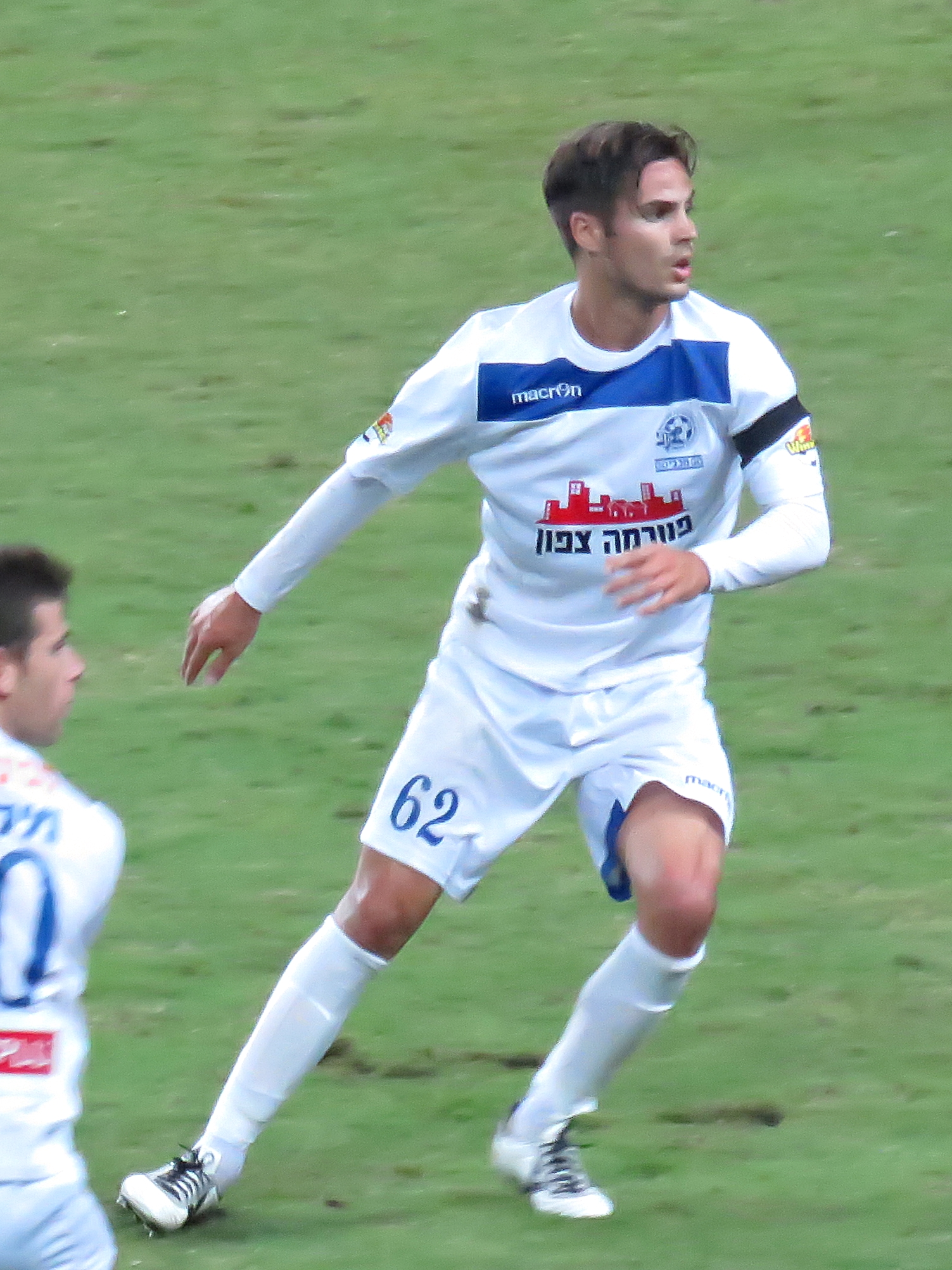 Maccabi Petah Tikva F.C. vs. Maccabi Haifa F.C., 31 October, 2015